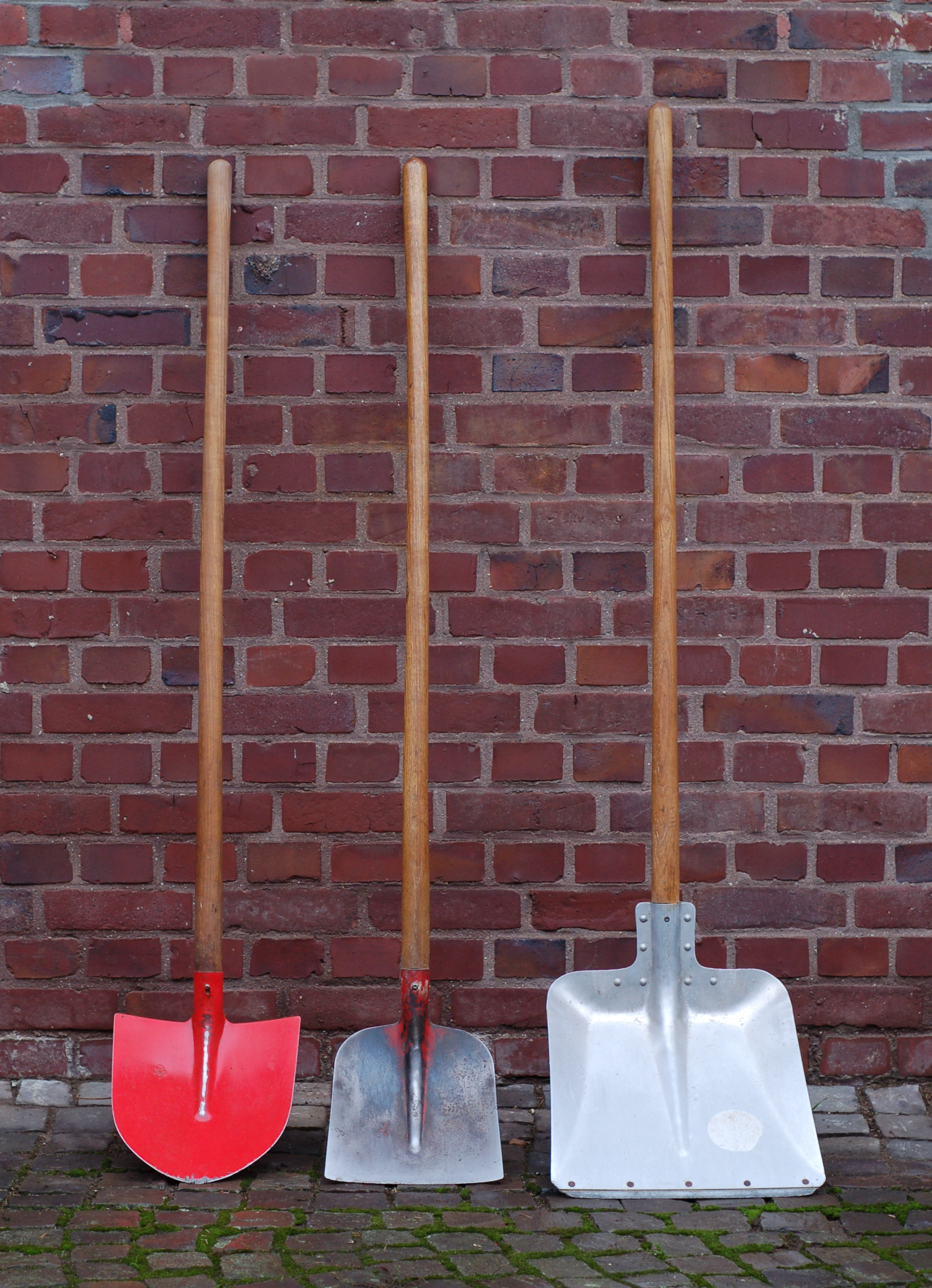 Three different shovels